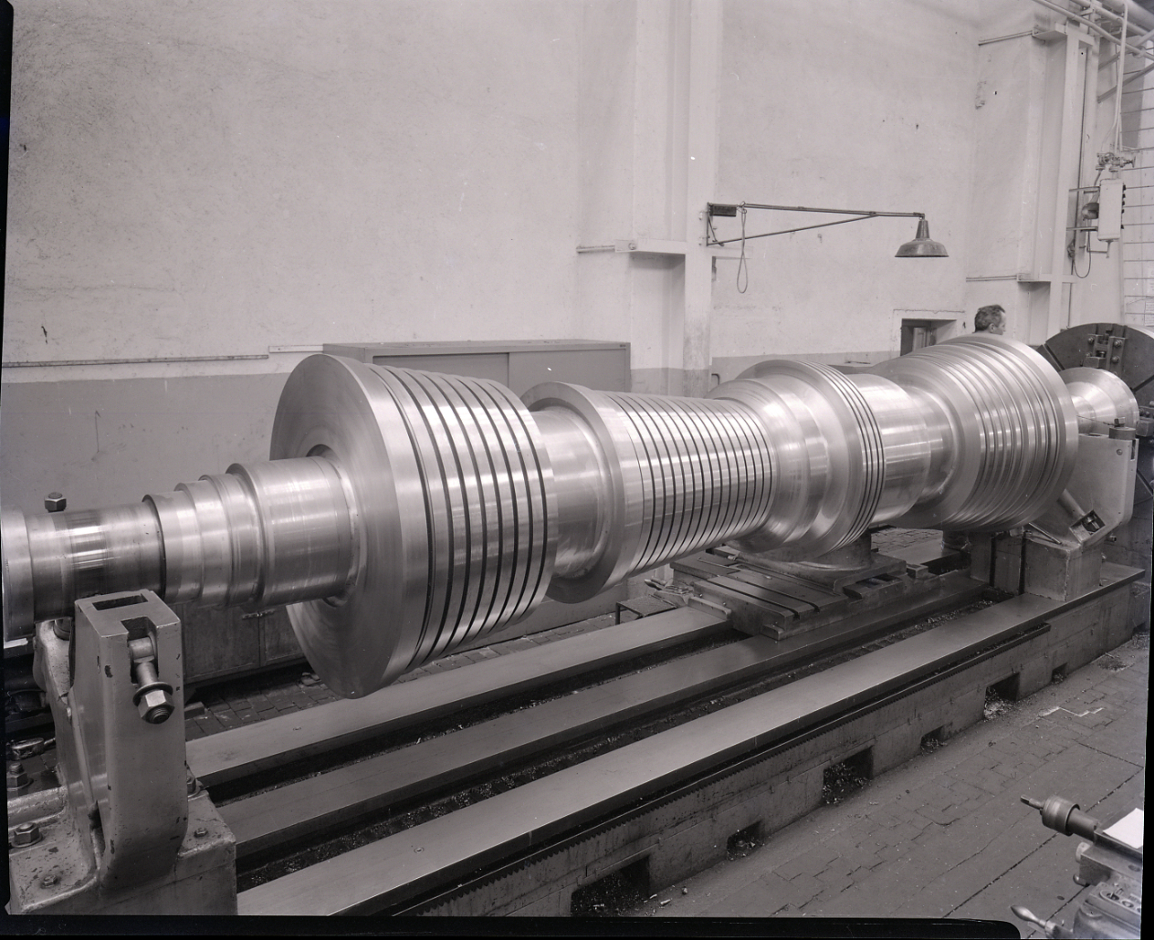 Italian metalworking lathe in 1958 with a shaft of a turbine as workpiece